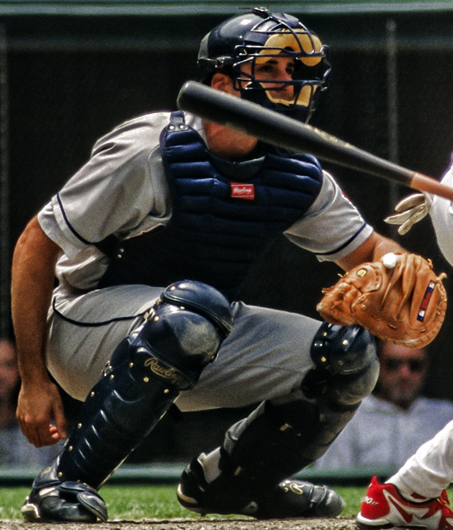 The California Angels meet the Cleveland Indians in a game @ Jacobs Field on June 8, 1996. The batter is Kenny Lofton. Check out the box score @